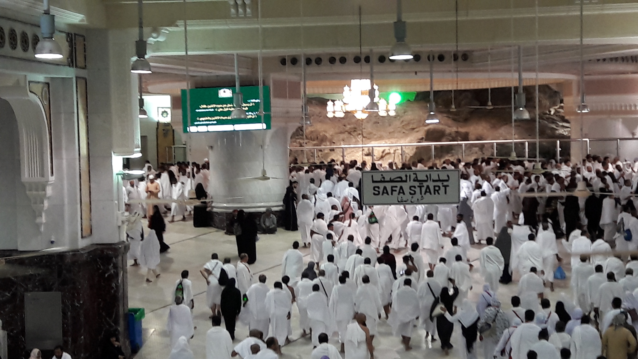 Mas'aa